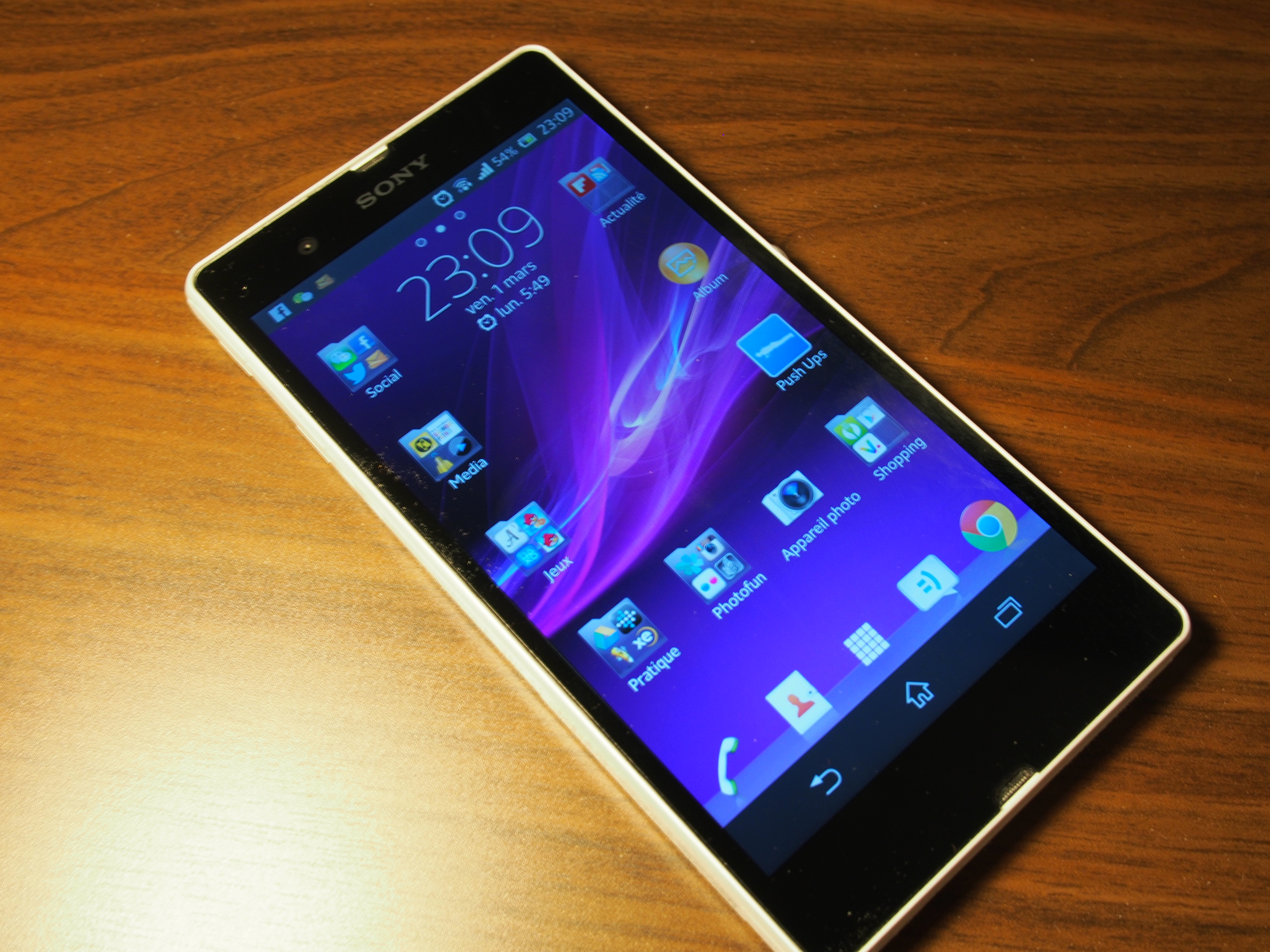 Sony Xperia Z, really amazing mobile phone !